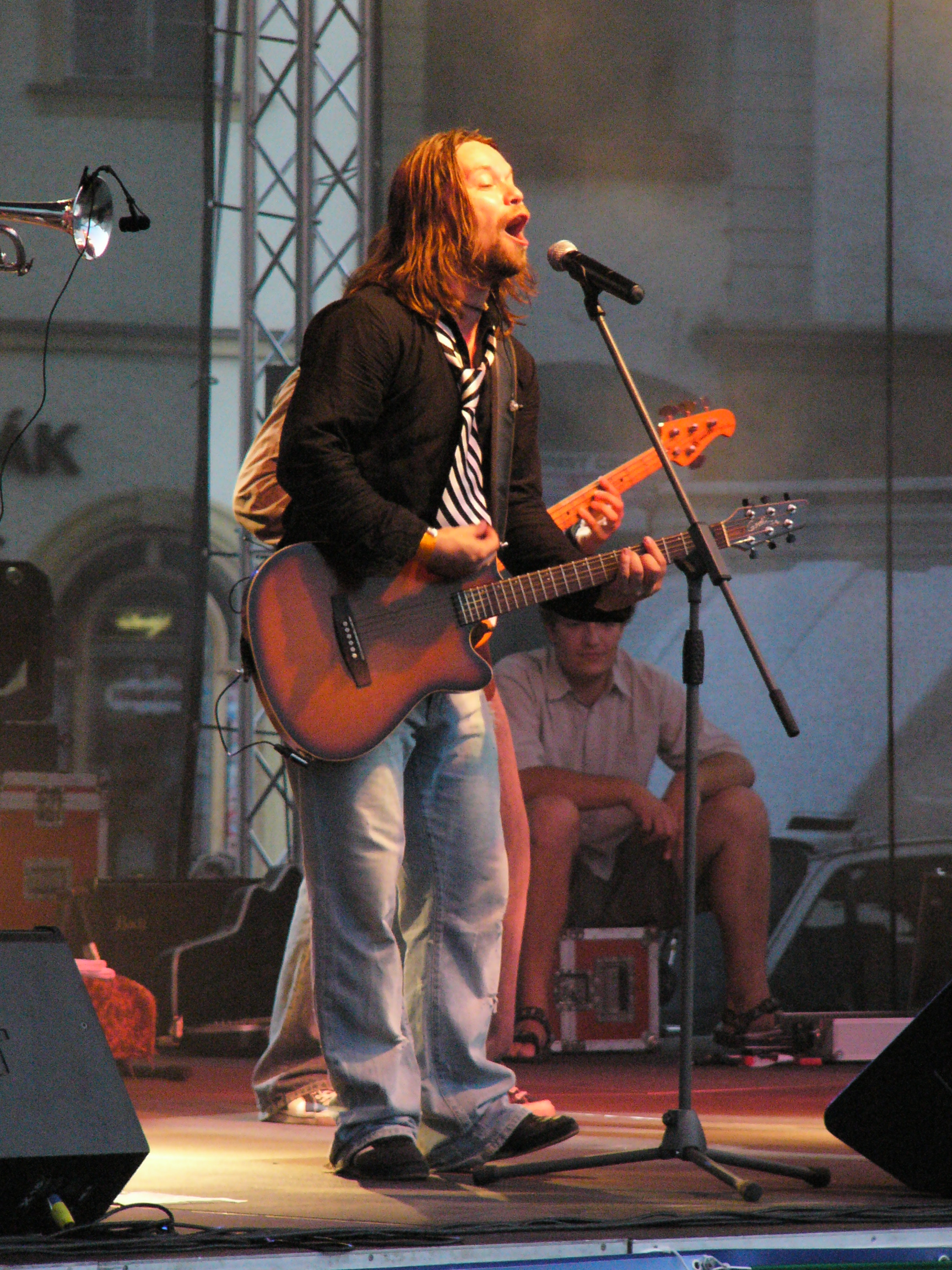 Richard Krajčo - singer of Czech music band Kryštof in June 2007 in Olomouc (Czech Republic).